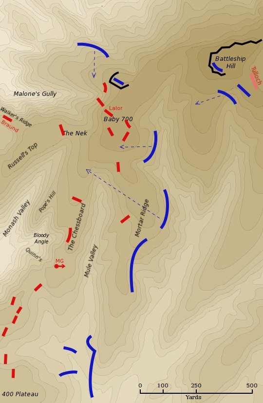 Map of the situation on Baby 700 during the Anzac landing on afternoon of April 25, 1915. Turkish forces are shown in blue and the direction of their counter-attacks are indicated with dotted arrows. Turkish trenches are shown in black. Anzac positions are shown in red. The position on Battleship Hill reached by Captain Tulloch in the morning is shown in pale red. Derived from Map No. 14 in Ch.14, Vol. I "The Story of Anzac" of the Official History of Australia in the War of 1914-18 by C.E.W. Bean.